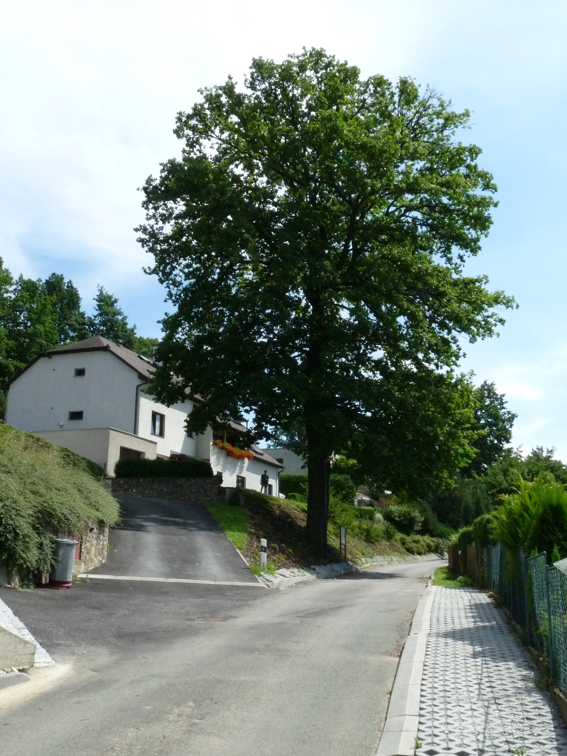 Oak tree in Vidov, České Budějovice district, Czech Republic